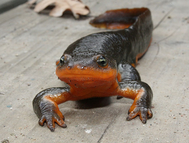 California Newt at the Galbreath Wildlands Preserve